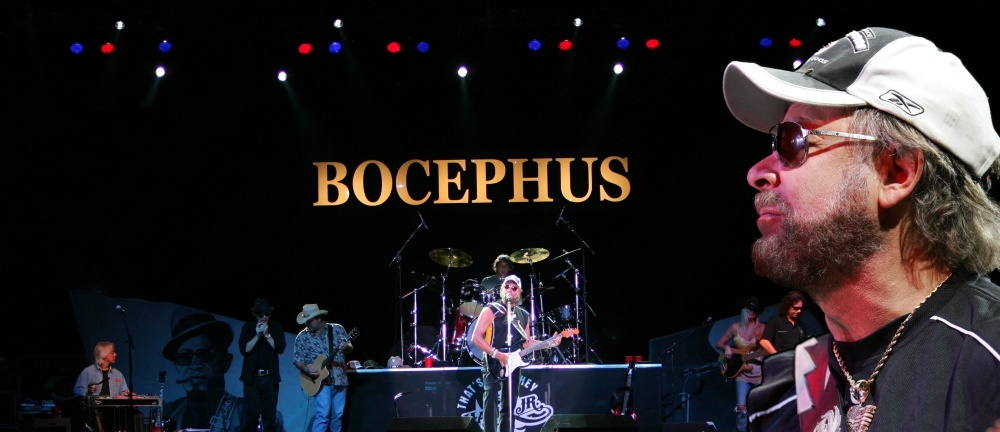 Hank Williams, Jr. in concert at the Chumash Casino Resort in Santa Ynez, California.